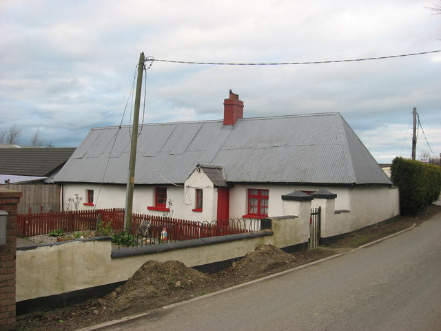 Cottage at Knocknagin, Co. Dublin Vernacular cottage, once thatched, now a store for a garden centre. Note genuine leprechaun in garden.